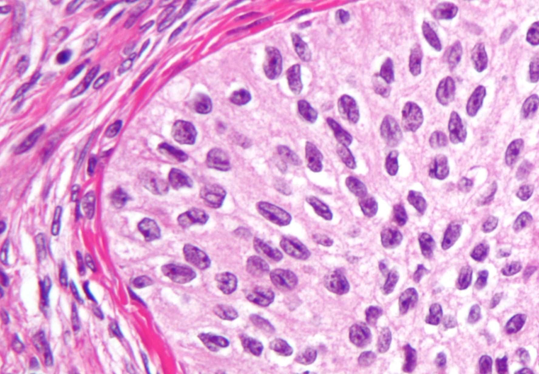 High magnification micrograph of a Brenner tumour. H&E stain. Original magnification 200X. These tumours are thought to arise from Walthard cell rests. On high magnification, tumour cells have a characteristic coffee bean nucleus (clearly visible in image). On low magnification, they resemble urothelial cell nests. Related images High mag. (cropped) High mag. Intermed. mag. Low mag. Intermed. mag. High mag.